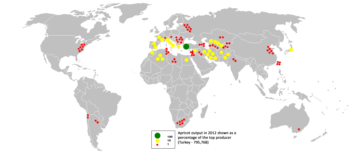 This bubble map shows the global distribution of apricot output in 2012 as a percentage of the top producer (Turkey - 795,768 tonnes). This map is consistent with incomplete set of data too as long as the top producer is known. It resolves the accessibility issues faced by colour-coded maps that may not be properly rendered in old computer screens. Data was extracted on 25th June 2012 from FAO. Based on en::Image:BlankMap-World-v2.png